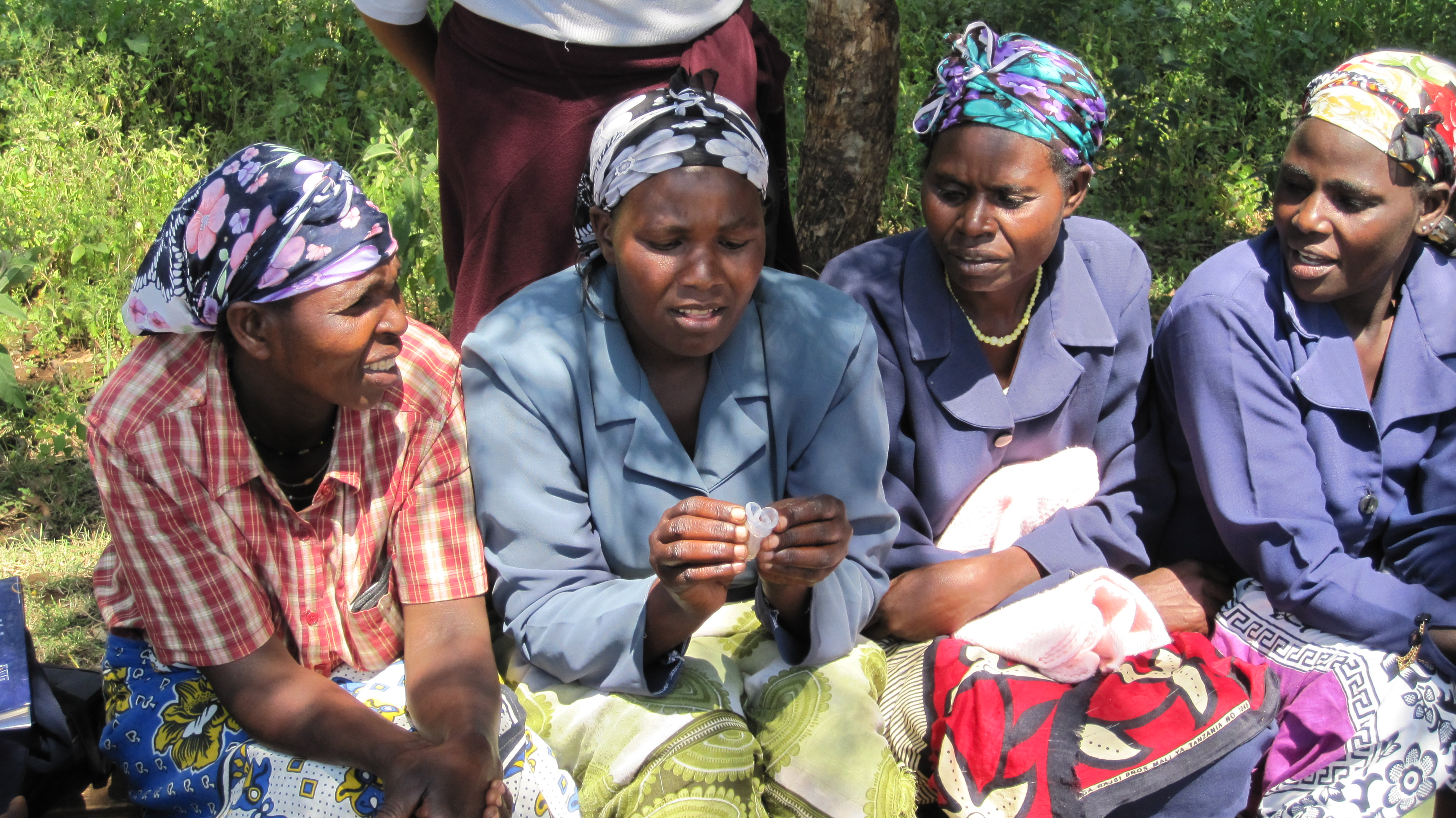 Menstrual hygiene initiatives in African countries